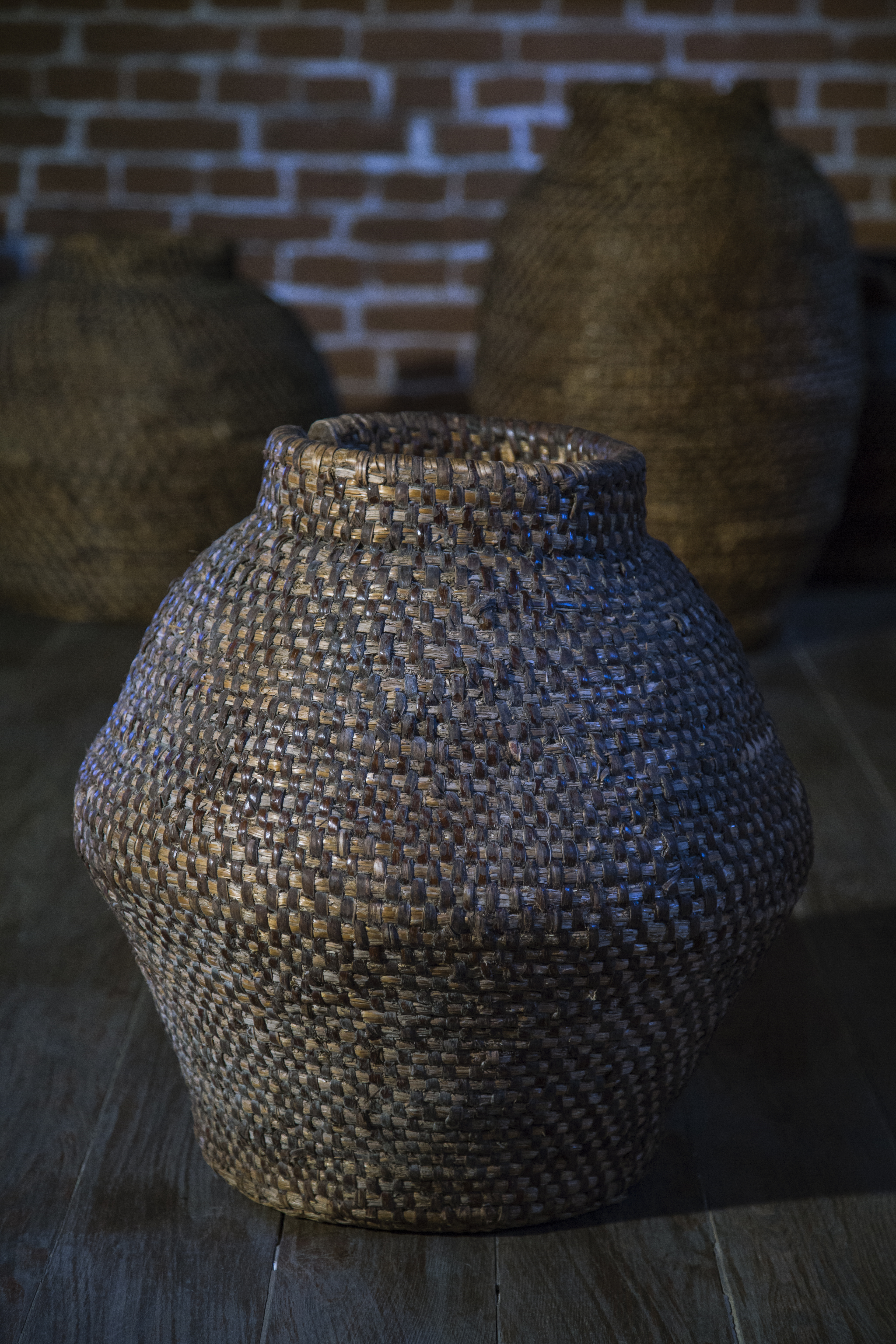 The straw jar for storing liquids